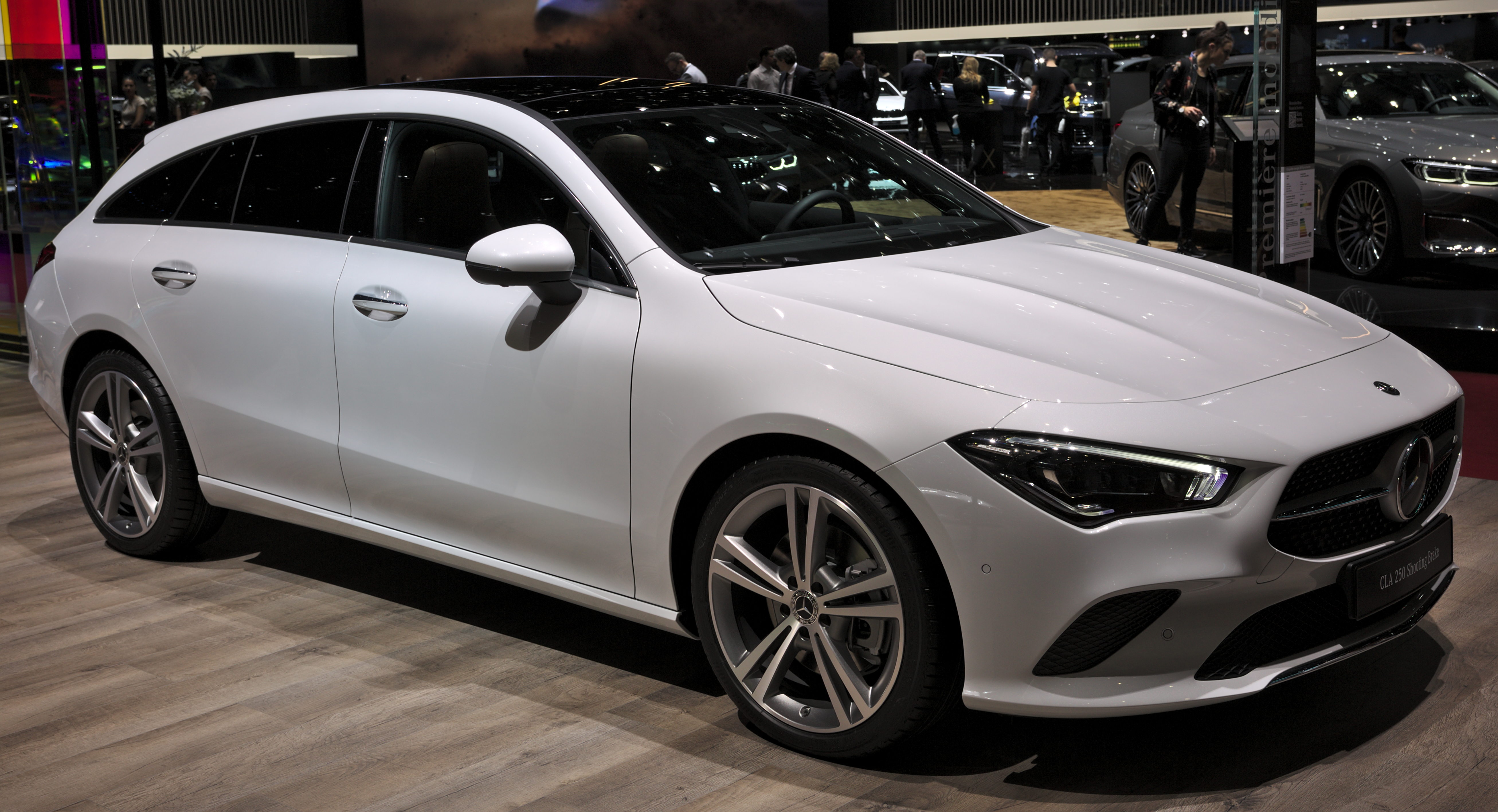 Mercedes-Benz CLA 250 Shooting Brake at Geneva Motor Show 2019